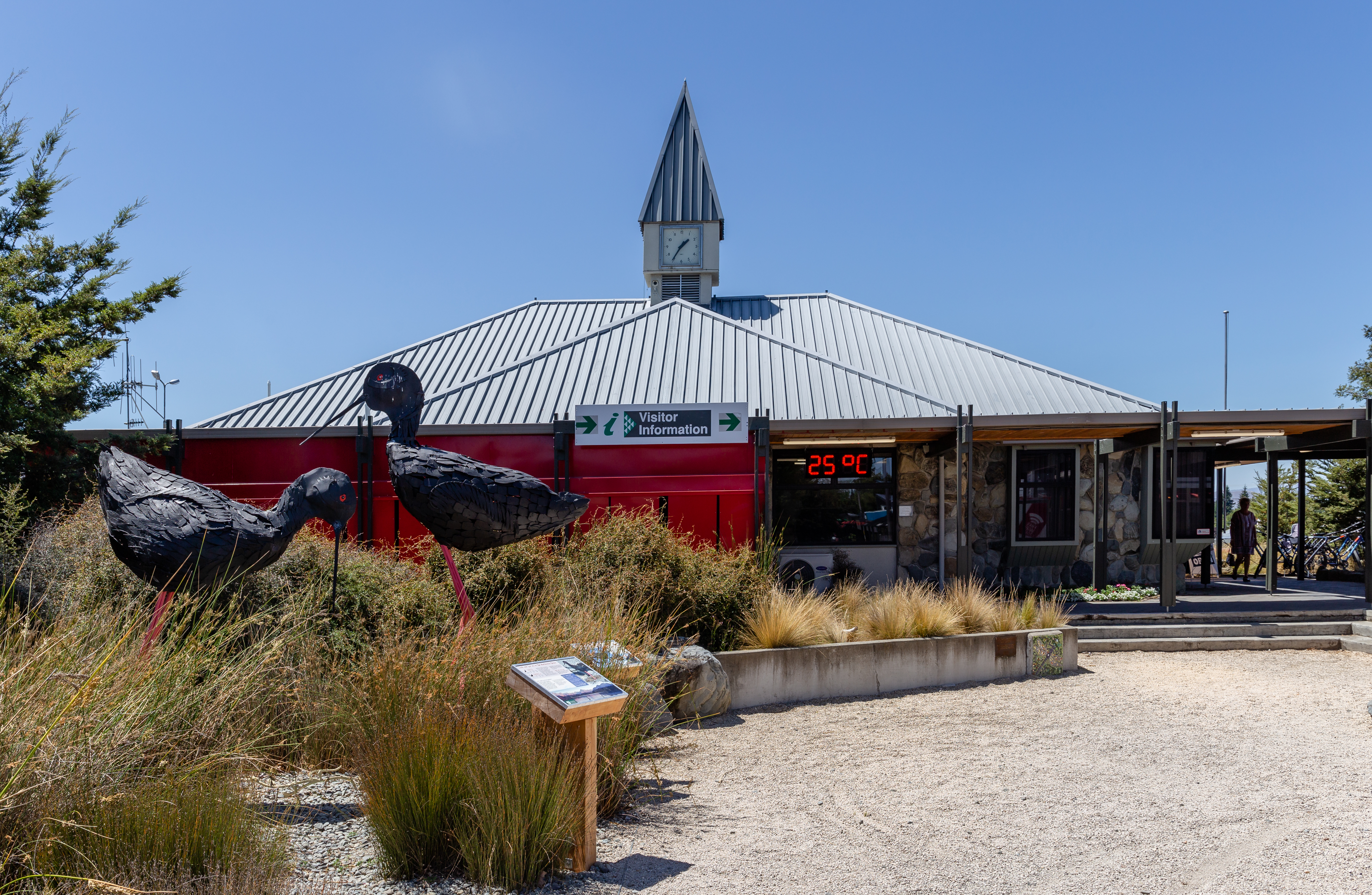 Visitor information with a sculpture The Black Stilt, Twizel, New Zealand